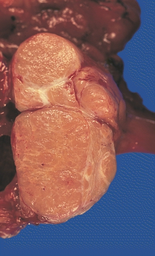 MEDIASTINUM: LOCALLY INVASIVE, CIRCUMSCRIBED THYMOMA (MIXED LYMPHOCYTIC AND EPITHELIAL AND MIXED POLYGONAL AND SPINDLE) Its cut surface bulges, and is pale tan and faintly lobulated. It invaded the capsule at a few points but still remained within the thymus.